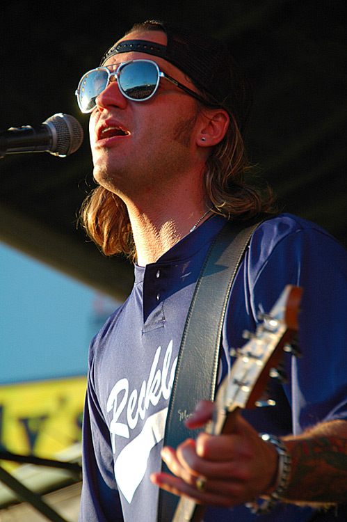 Cody Canada of Cross Canadian Ragweed at the Reckless Kelly Celebrity Softball Jam